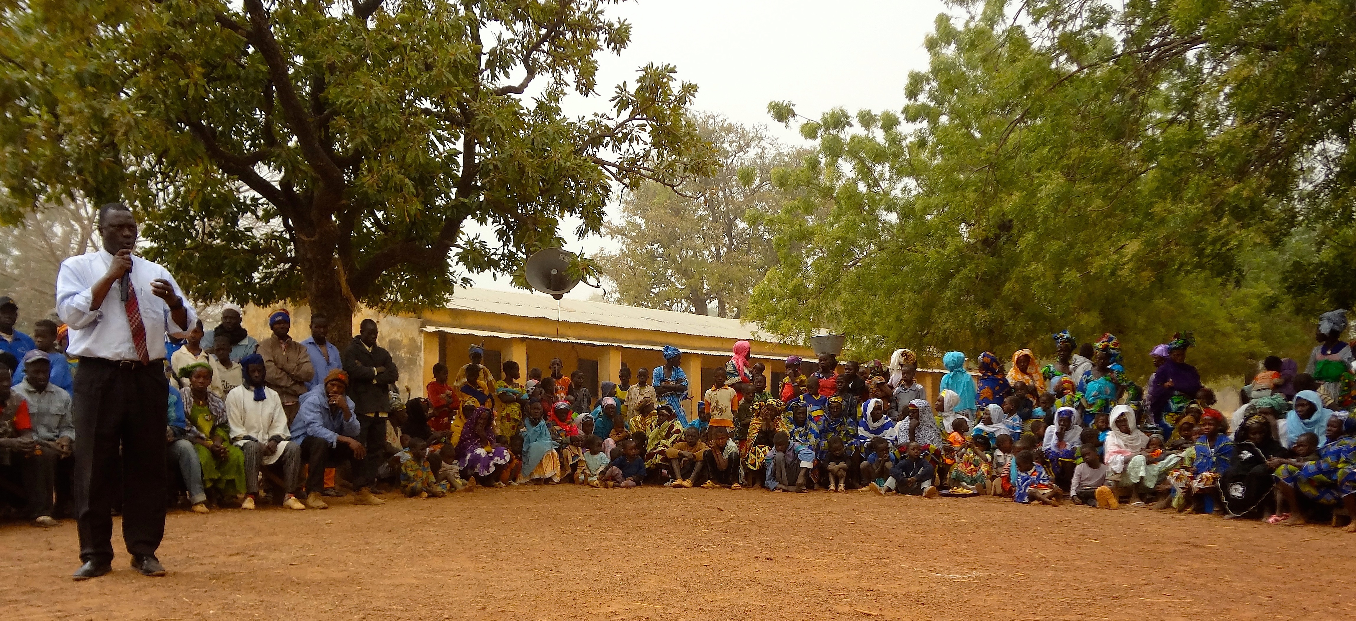 2012 Malian presidential candidate Yeah Samake speaking in front of crowd in Beneko, Mali.